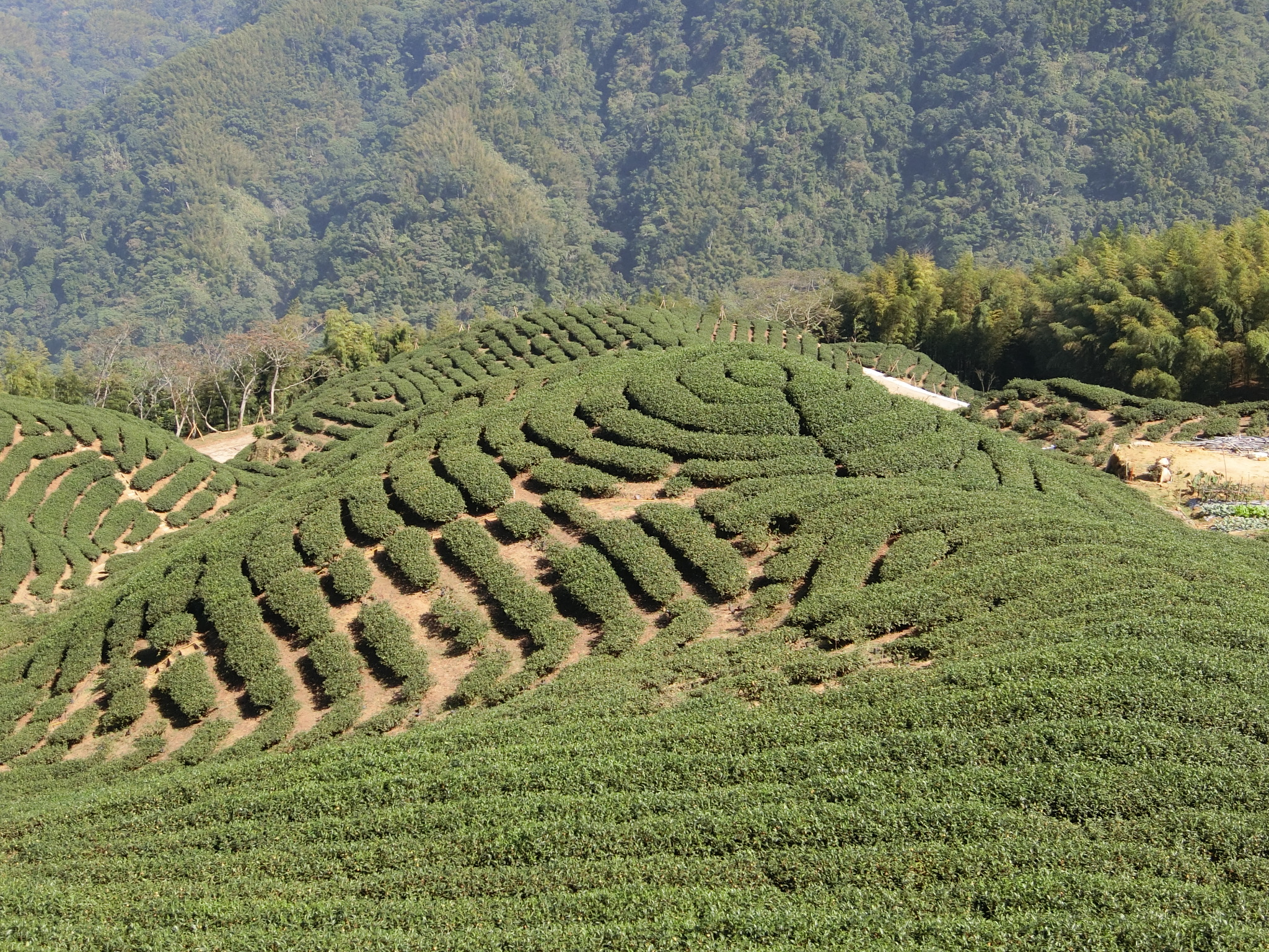 Tea plantation which looks like Bagua.